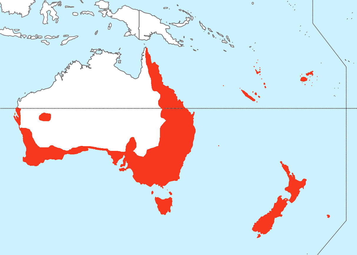 Map of Oceania, showing natural range of the Silvereye (Zosterops lateralis) based on the information given in Silvereye#Distribution_and_habitat as of 2012-11-22.